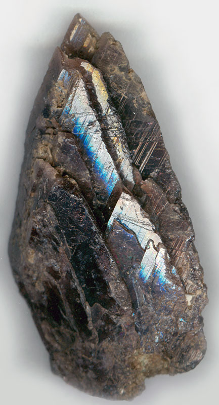 Ferro-axinite; 5-cm. From the Pribrezhnoye deposit, Chukotka, Russia.